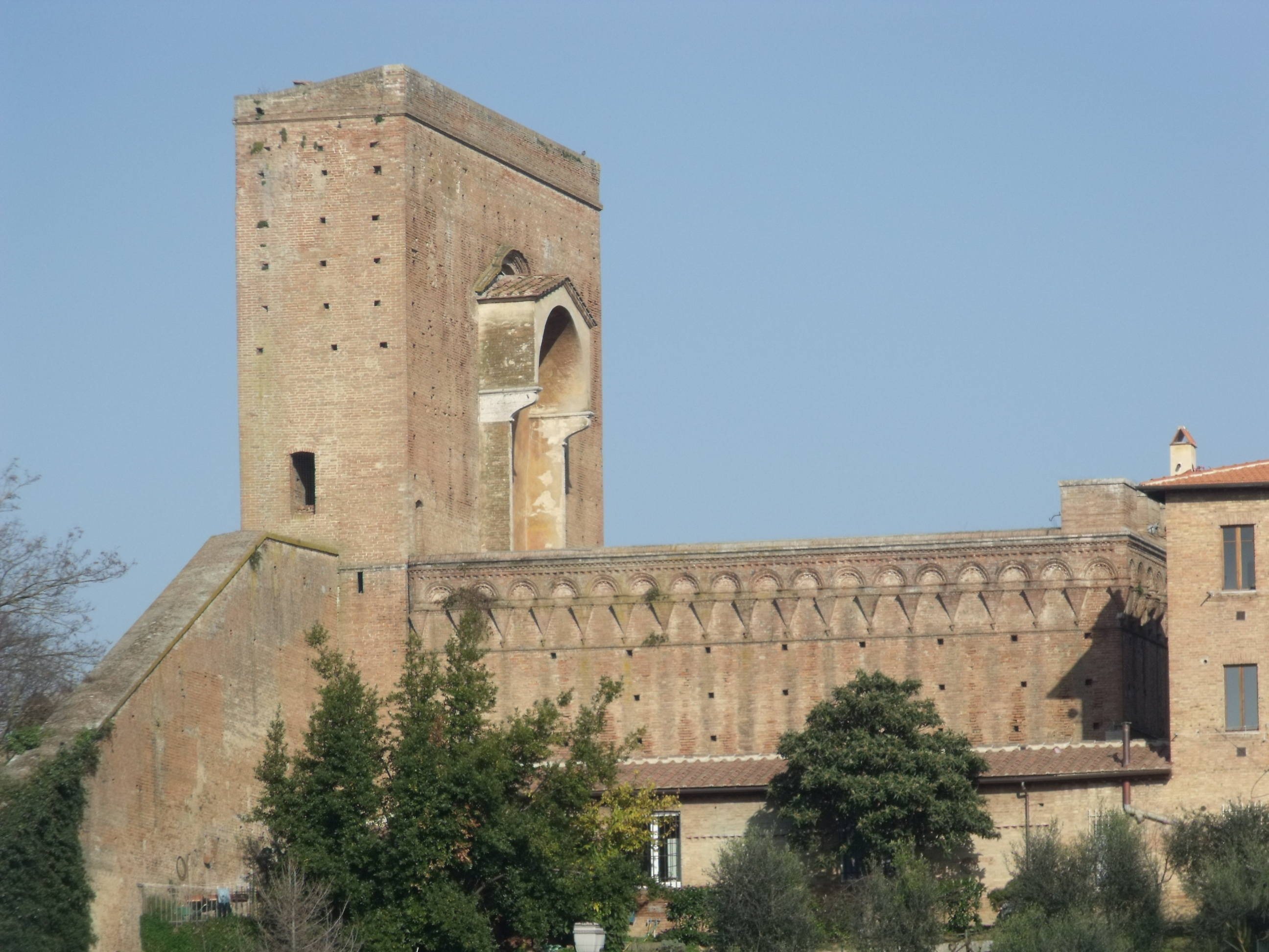 City Gate Porta Pispini (Porta dei Pispini) in Siena